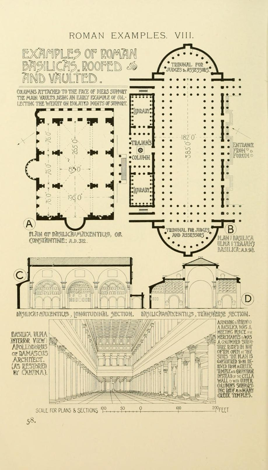 The Basilicas, erected as halls of justice and as exchanges for merchants, comprise some of the finest buildings erected by the Romans, and bear witness to the importance of law and justice in their eyes. These buildings are also interesting as a link between Classic and Christian architecture. The usual plan was a rectangle, whose length was two or three times the width. Two or four rows of columns' ran through the entire length, resulting in three or five aisles, and galleries were usually placed over these. The entrance was at the side or at one end, and the tribunal at the other on a raised dais, generally placed in a semicircular apse, which was sometimes partly cut off from the main body of the building by columns. Ranged round the apse were seats for the assessors, that in the centre, which was elevated above the rest, being occupied by the Praetor or Questor. In front of the apse was the altar, where sacrifice was performed before commencing any important business. The building was generally covered with a wooden roof, and the exterior seems to have been of small pretensions, in comparison with the interior. Trajan's (the Ulpian) Basilica, Rome (A.D. 98) (Nos. 47* 58 B, E), of which Apollodorus of Damascus was the architect was a fine example of the wooden roofed type. Entered from Trajan's Forum, it had a central nave 87 feet wide with double aisles, each 23 feet 9 inches wide, and an internal length excluding the apses of 385 feet. The total internal height was about 120 feet. The columns on the ground story separating the nave and aisles were of red granite from Syene, with white marble Corinthian capitals. At each end were semicircular apses, reached by flights of steps, having sacrificial altars in front of them. Galleries were formed over the side aisles, reached by steps as shown on the plan. Adjoining the Basilica were the Greek and Latin libraries, and Trajan's famous Column stood in an open court between them.